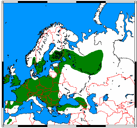 Range map for Whiskered bat (Myotis mystacinus), made by me with help of Map depending on the range map at IUCN red list.